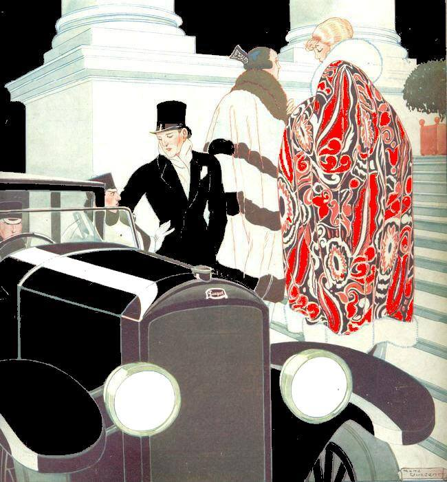 A 15 HP Peugeot on the cover of the July 1922 issue of Automobilia (a French motoring magazine)